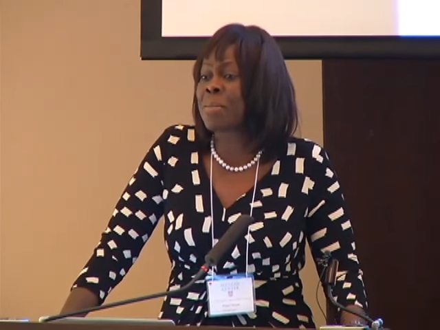 Funmi Olopade in 2012